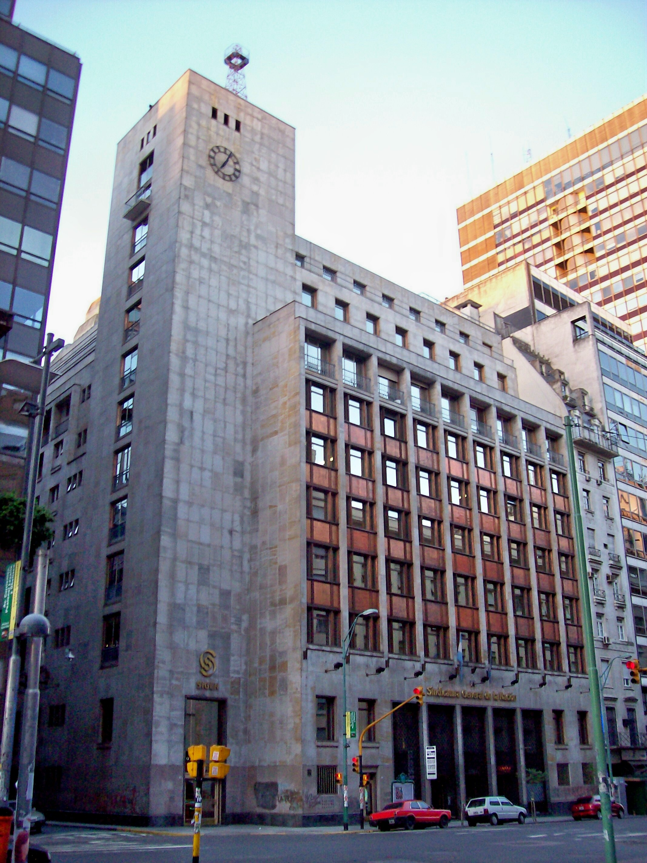 Avenida Corrientes and Reconquista, Buenos Aires, Argentina. This building was a former head office of Empresa de Líneas Marítimas Argentinas (ELMA), a national shipping company closed on 1990 decade. Nowadays the building hosts SIGEN.